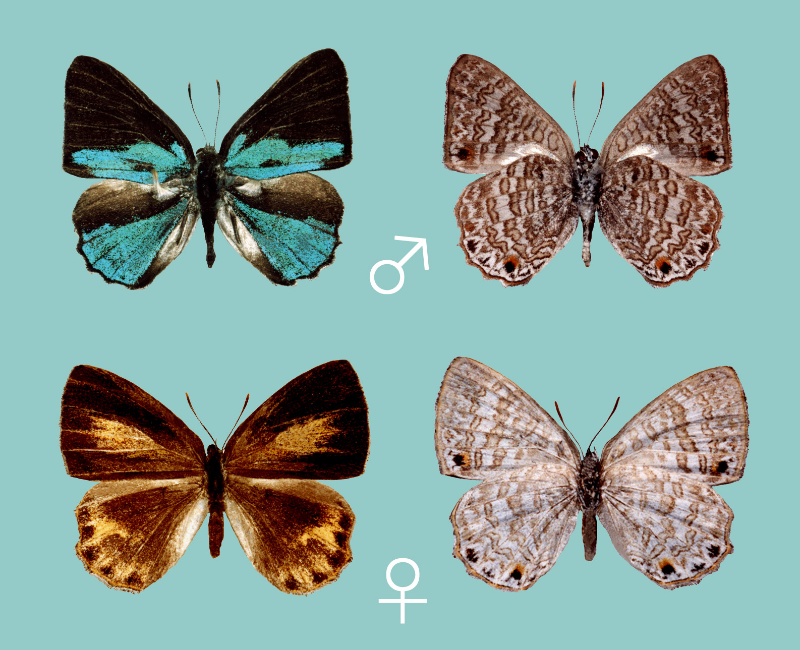 Poritia kinoshitai, male & female